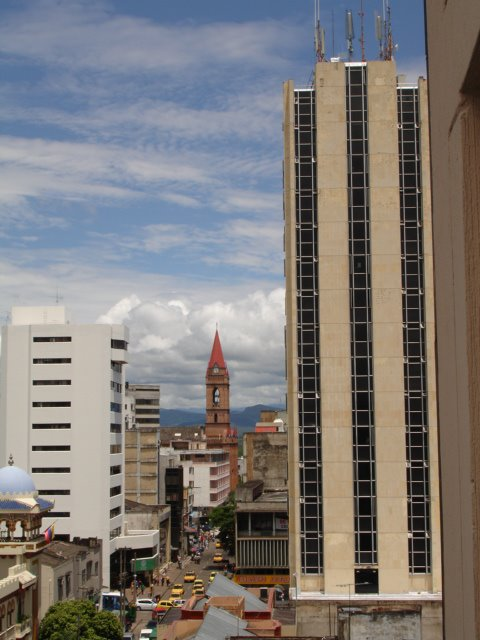 CENTRO